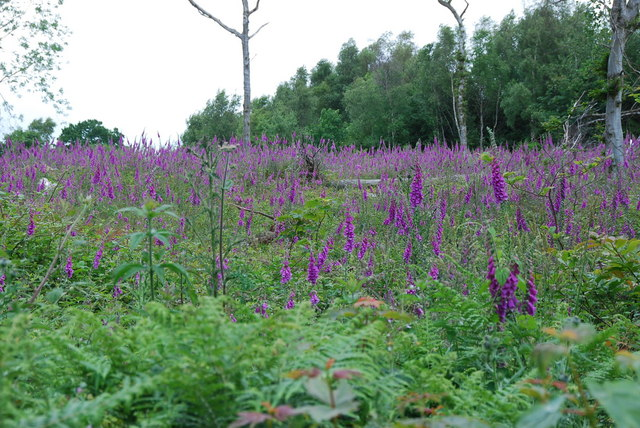 Flowering foxgloves This clearing in Cann Woods was covered in hundreds of foxgloves all in full flower. The photograph does not do them justice.